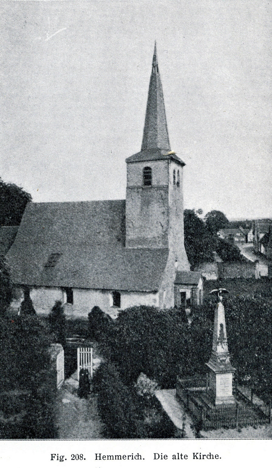 Old Saintt Ägidius (before 1899), Hemmerich, Germany